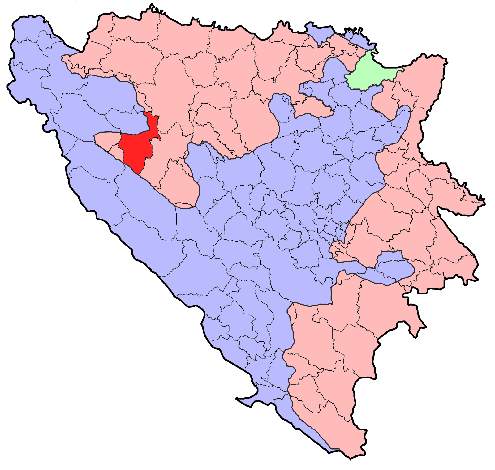 Location of Ribnik municipality in Bosnia and Herzegovina.